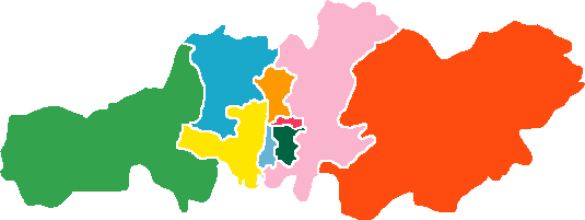 Subdivision of Changsha